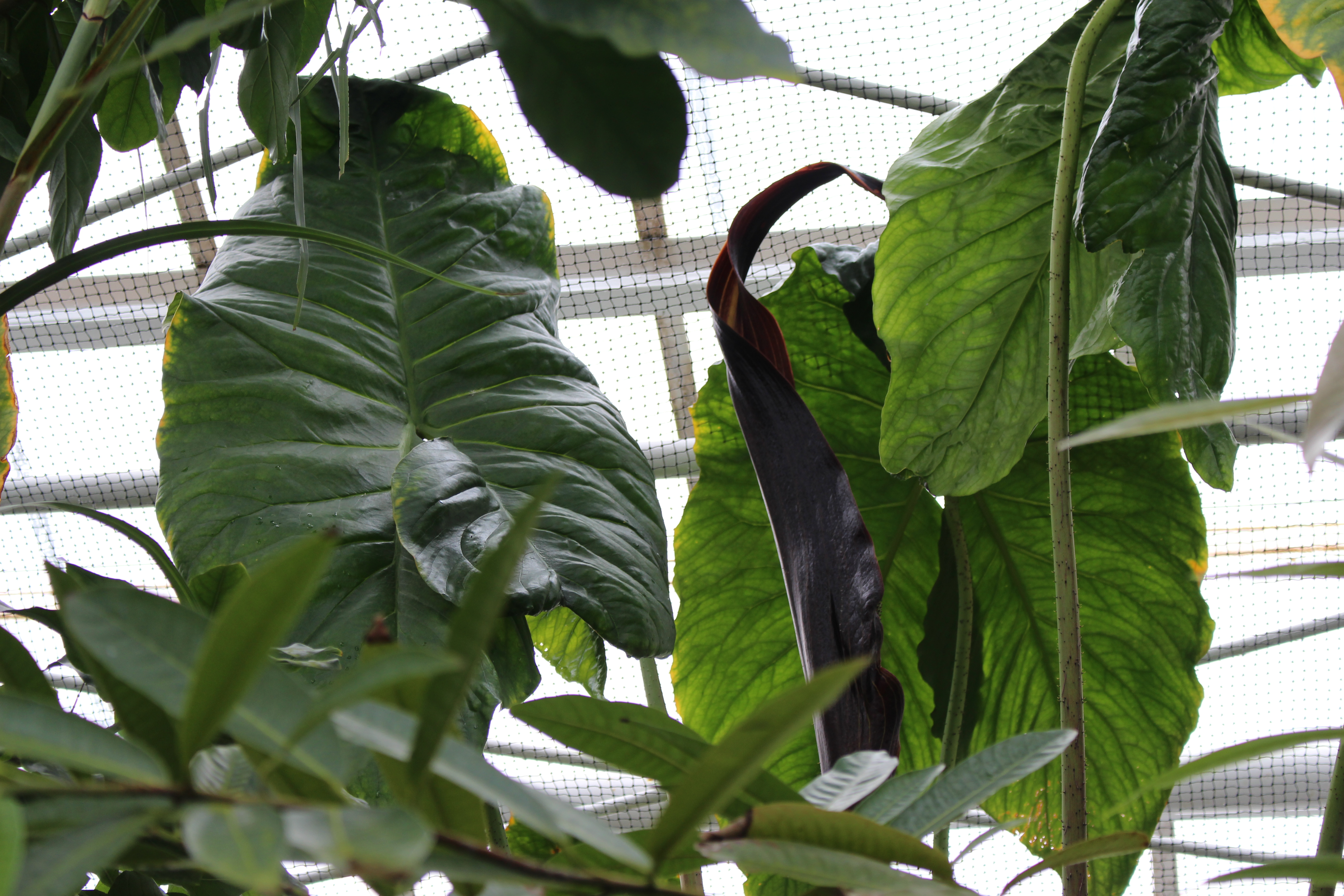 Upper spathe and leaves of Urospatha sagittifolia in the Botanischer Garten München-Nymphenburg, Germany.